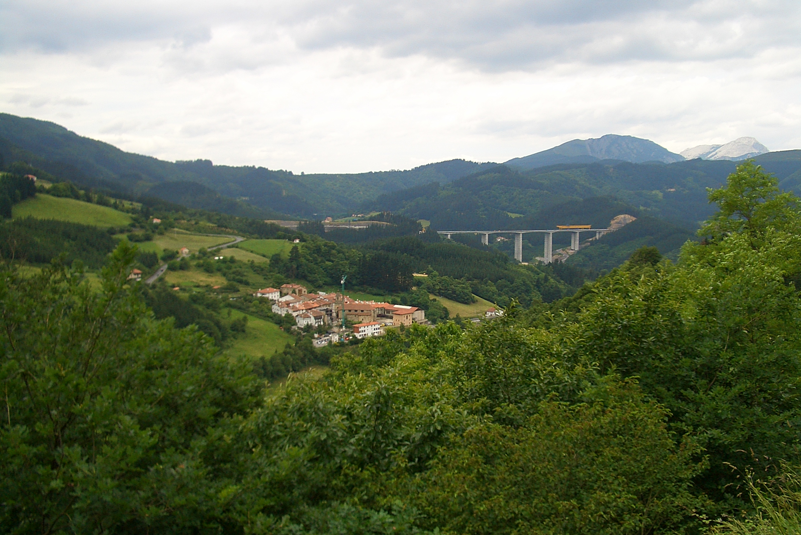 The village of Leintz - Gatzaga, with AP-1 (Autopista del Norte) under construction in the background, seen from GI-627, south of Aretxabaleta